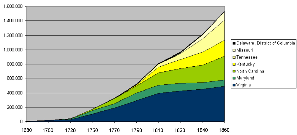 Chart: Numbers of slaves in the USA, Chesapeake and Upper South only, 1680 thru 1860; data source: Ira Berlin: Generations of Captivity: A History of African-American Slaves, Cambridge, London: The Belknap Press of Harvard University Press, 2003, ISBN 0-674-01061-2